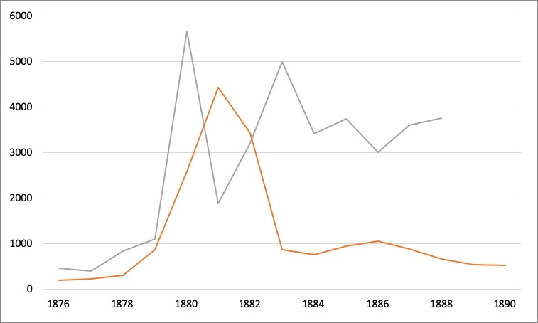 Information from Vaughan, Landlords and Tenants in mid Victorian Ireland, pp. 230–231, 280